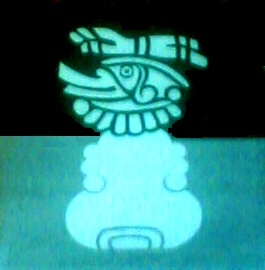 Logo of Metro Ecatepec, on the Mexico City metro.